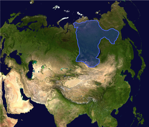 Location of the Siberian shield (and outcrops of the Siberian craton) on a satellite image of Asia.